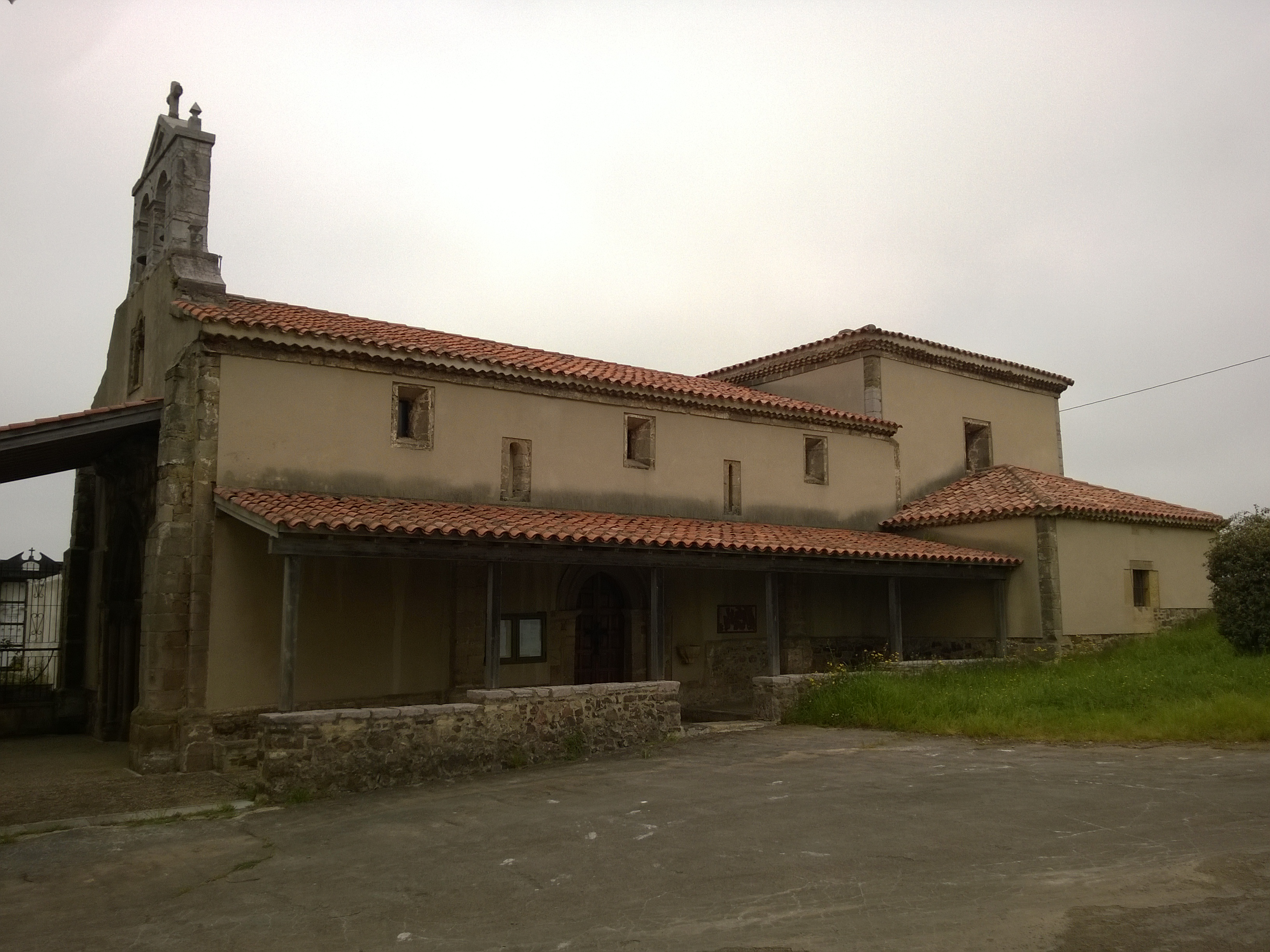 Main view of the south front